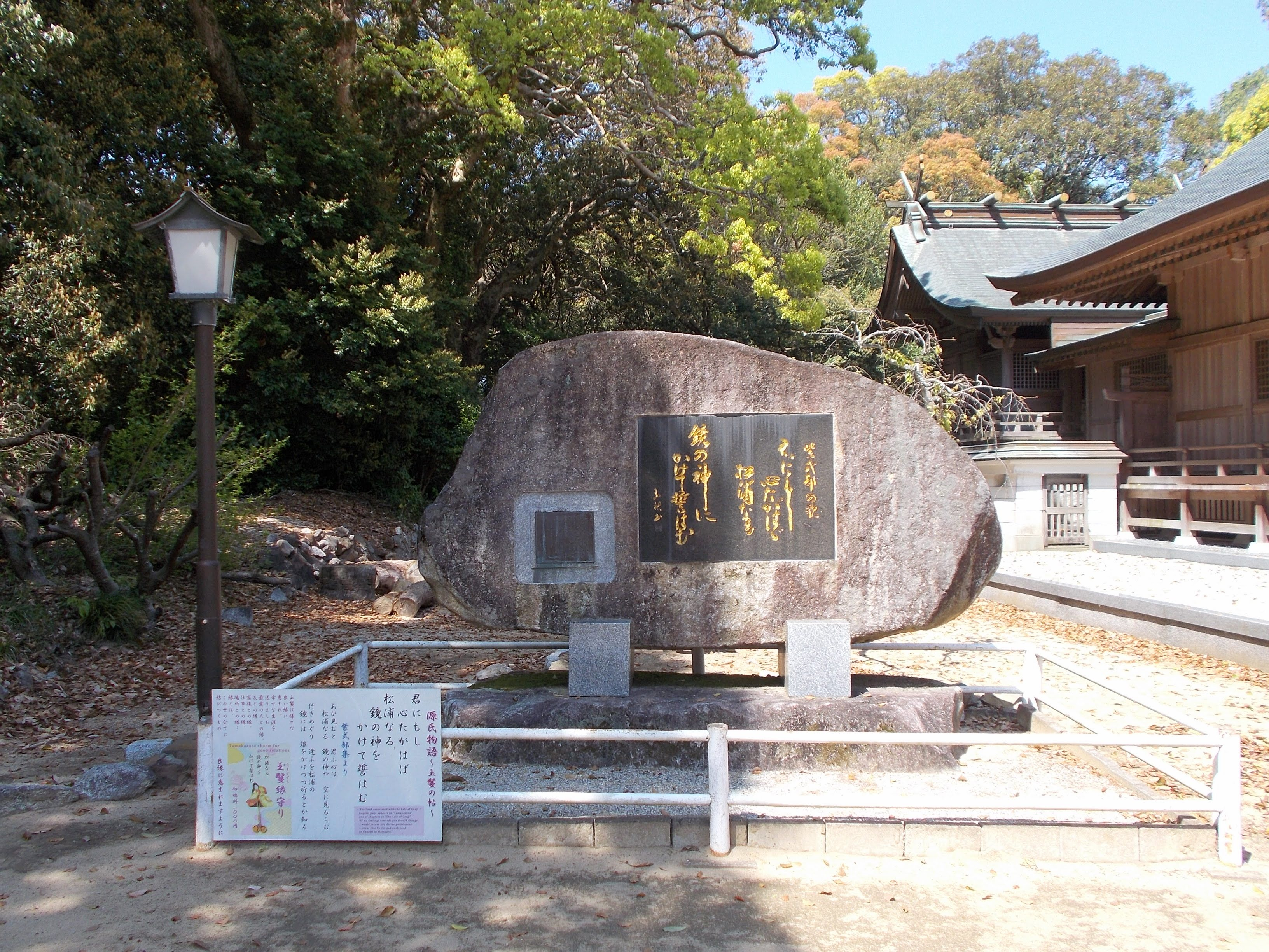 A Tanka monument of the Tale of Genji in Kagami-jinja, Karatsu, Saga, Japan